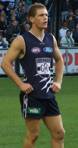 Joel Selwood dressed in his sports uniform standing with his arms on his hips on the football field